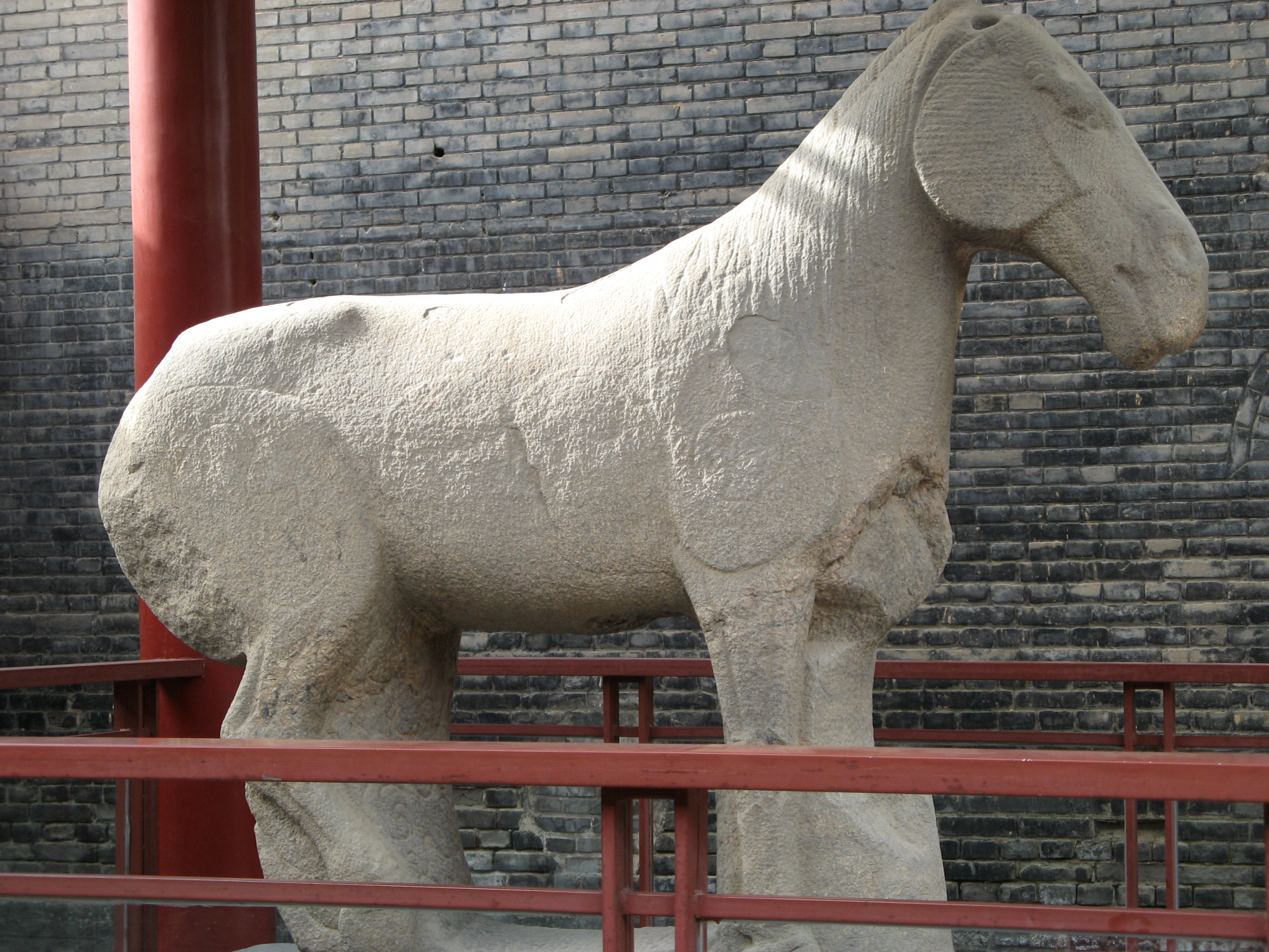 Stone Horse. 422 AD. Beilin Museum, Xi'an This horse was carved during the "Great Xia," an ephemeral Xiongnu kingdom in Shaanxi province that was one of the eponymous Sixteen Kingdoms of that time. The vigorous character of the Xiongnu is reflected in the statue's simplicity and strength. The Xiongnu have long been theorized to be related somehow to the Huns, but many different opinions have been offered, and as of 2007 the question is still not settled.